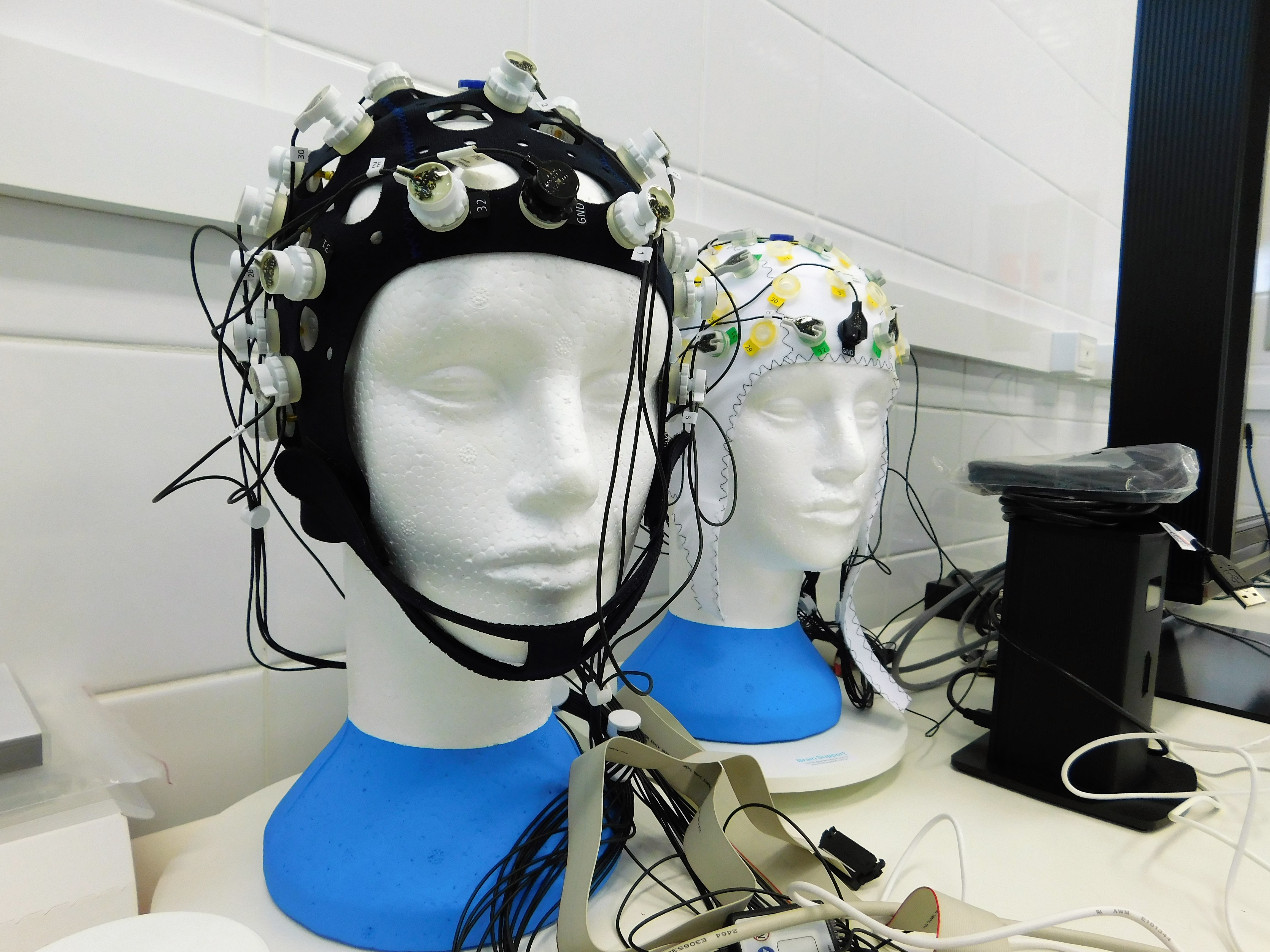 From October 16 to 20 NeuroMat hosted the workshop “Random Structures in the Brain”. The workshop was organized as a setting for a general discussion on NeuroMat's achievements and prospective activities and as an opportunity for sparking new directions for the RIDC working groups in research, technology transfer and scientific dissemination. The event's website is